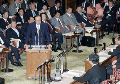 Yasuo Fukuda, Prime Minister, attended the deliberation of the Budget Committee, House of Councillors at the National Diet Building in Chiyoda Ward, Tōkyō Metropolis on October 15, 2007.